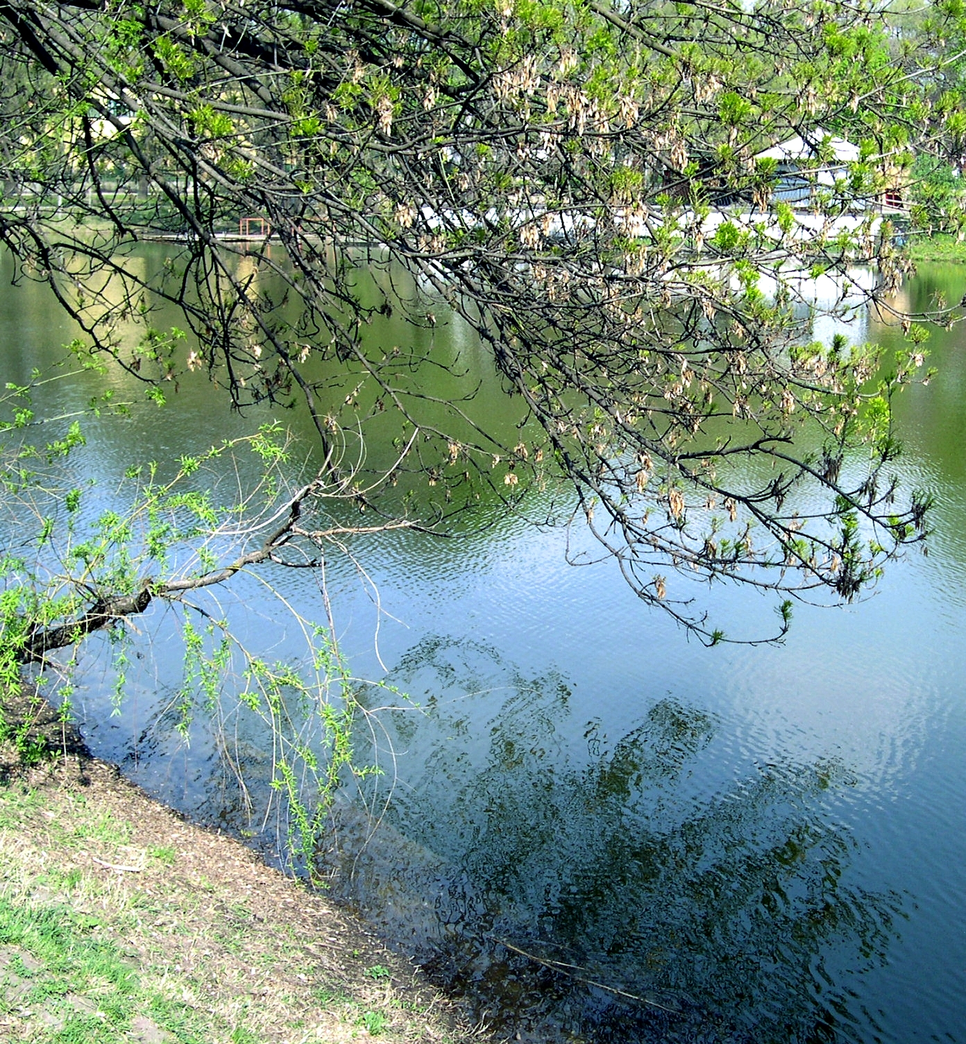 Lakelet in Budapest